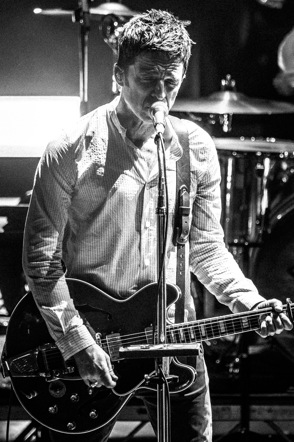 Noel Gallagher playing live in Rome with his High Flying Birds, June 2018